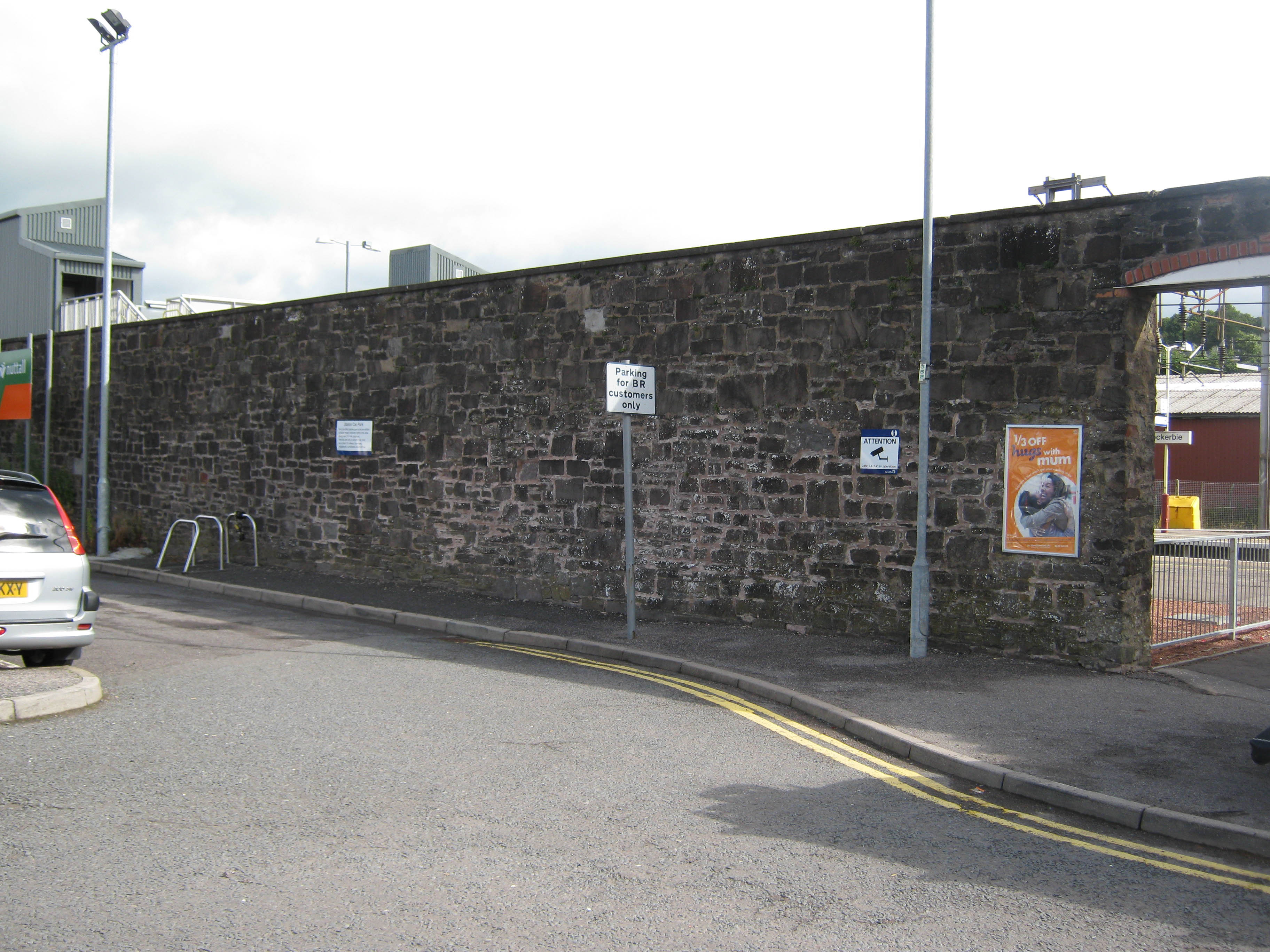 Lockerbie railway station, Dumfries and Galloway.